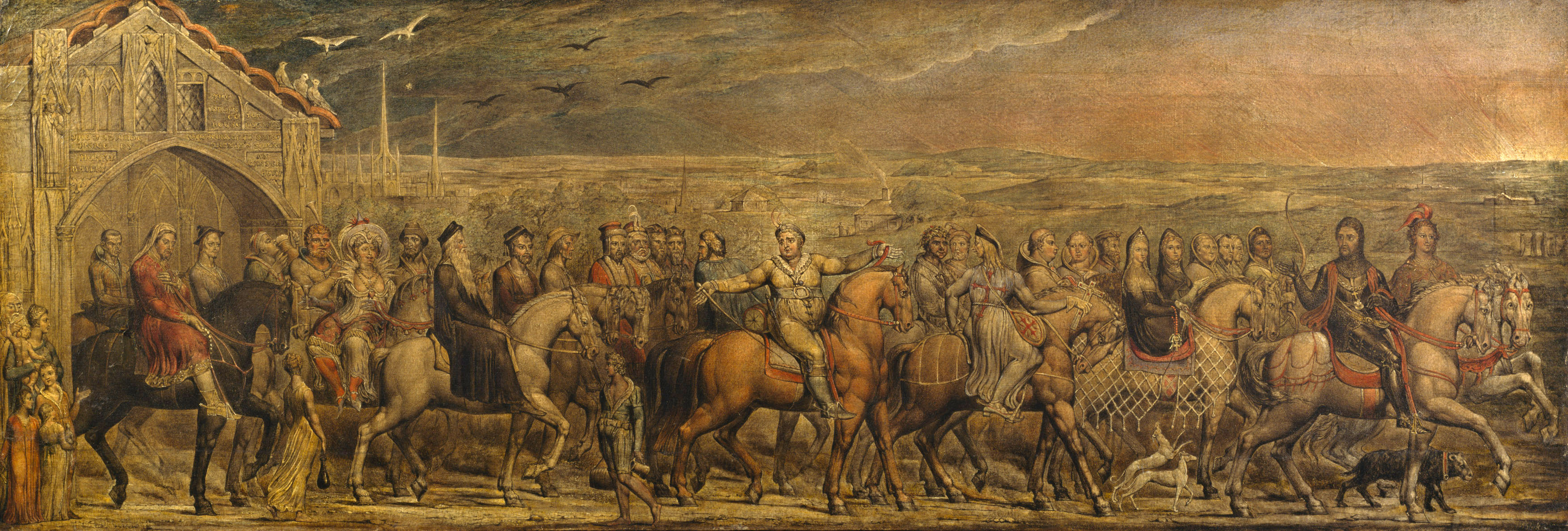 William Blake - Chaucer's Canterbury Pilgrims Picture The Canterbury Pilgrims, 1808 Pen and tempera on canvas Size 46.7 x 137 cm Pollok House, Glasgow Butlin 653